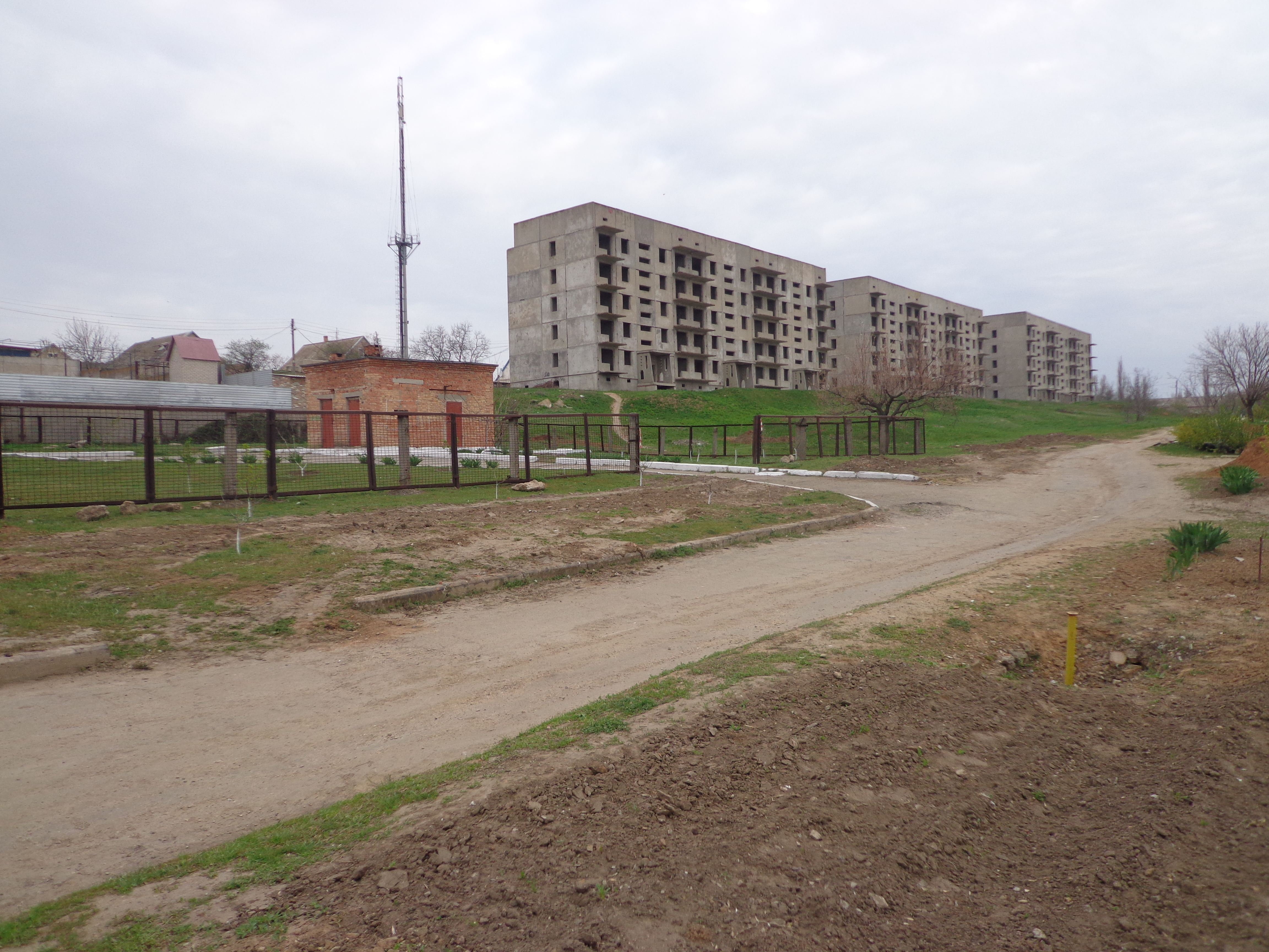 Protracted building at Belyakova Street. Melitopol, Ukraine